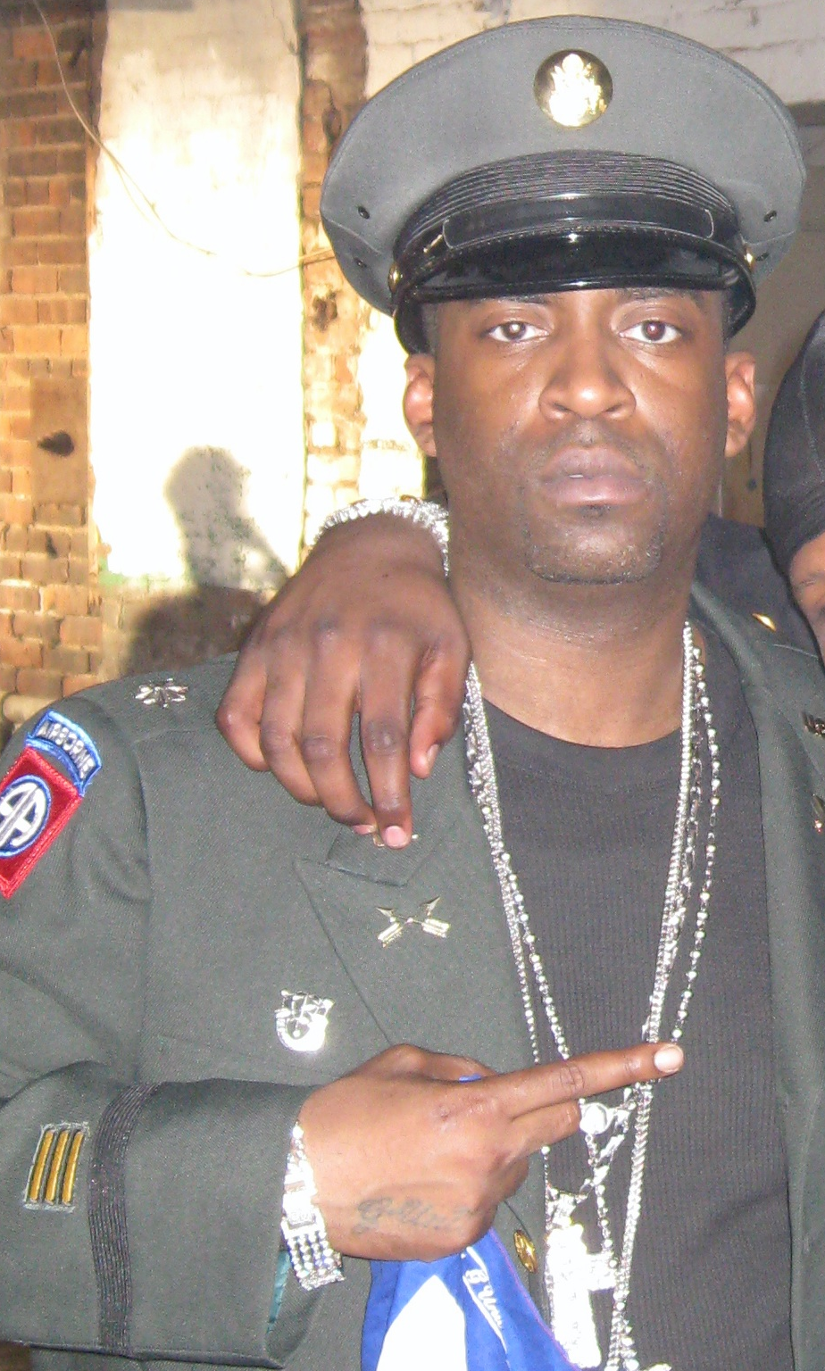 G-Unit at the Rider Pt. 2 video shoot.